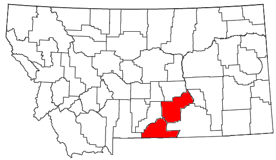 Locator map of the Billings Metropolitan Statistical Area in the southern part of the U.S. state of Montana.